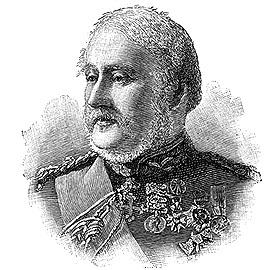 Portrait of Field Marshal Lord William Paulet